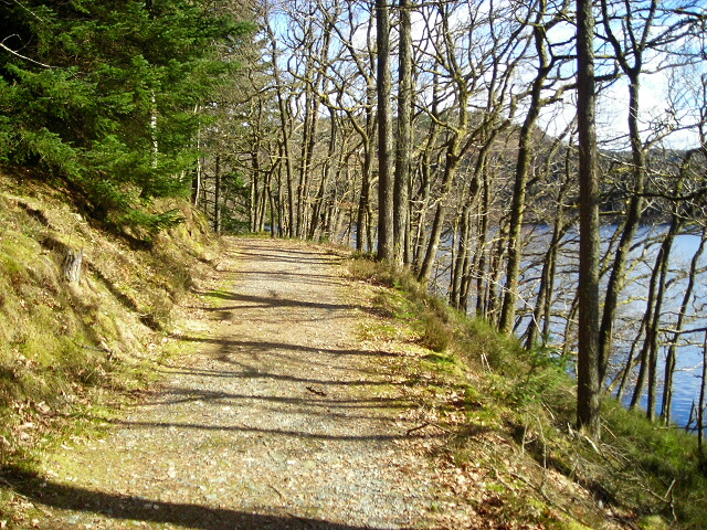 Path Beside Loch Drunkie